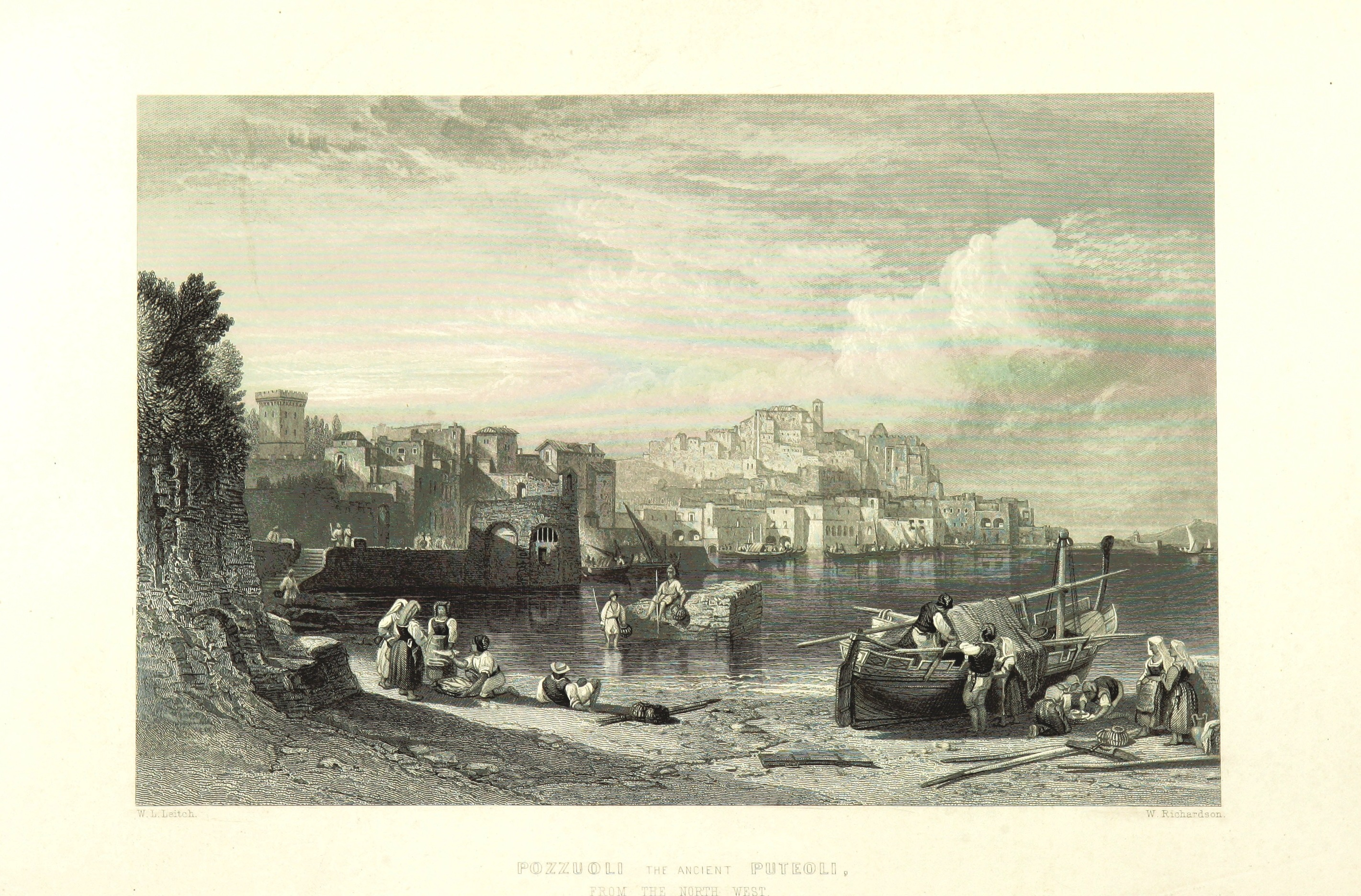 Image from 'Italy, illustrated and described, in a series of views from drawings by Stanfield, R.A., Roberts, R.A., Harding, Prout, Leitch, Brockedon, Barnard, &c. &c. With descriptions of the scenes. And an introductory essay. on the political, religious, and moral state of Italy. By Camillo Mapei [translated by David Dundas Scott] ... And a sketch of the history and progress of Italy during the last fifteen years, 1847-62, in continuation of Dr. Mapei's essay. By the Rev. Gavin Carlyle', 001828371 Author: BROCKEDON, William. Page: 584 Year: 1864 Place: London Publisher: Blackie & Son Rotated by Mac9